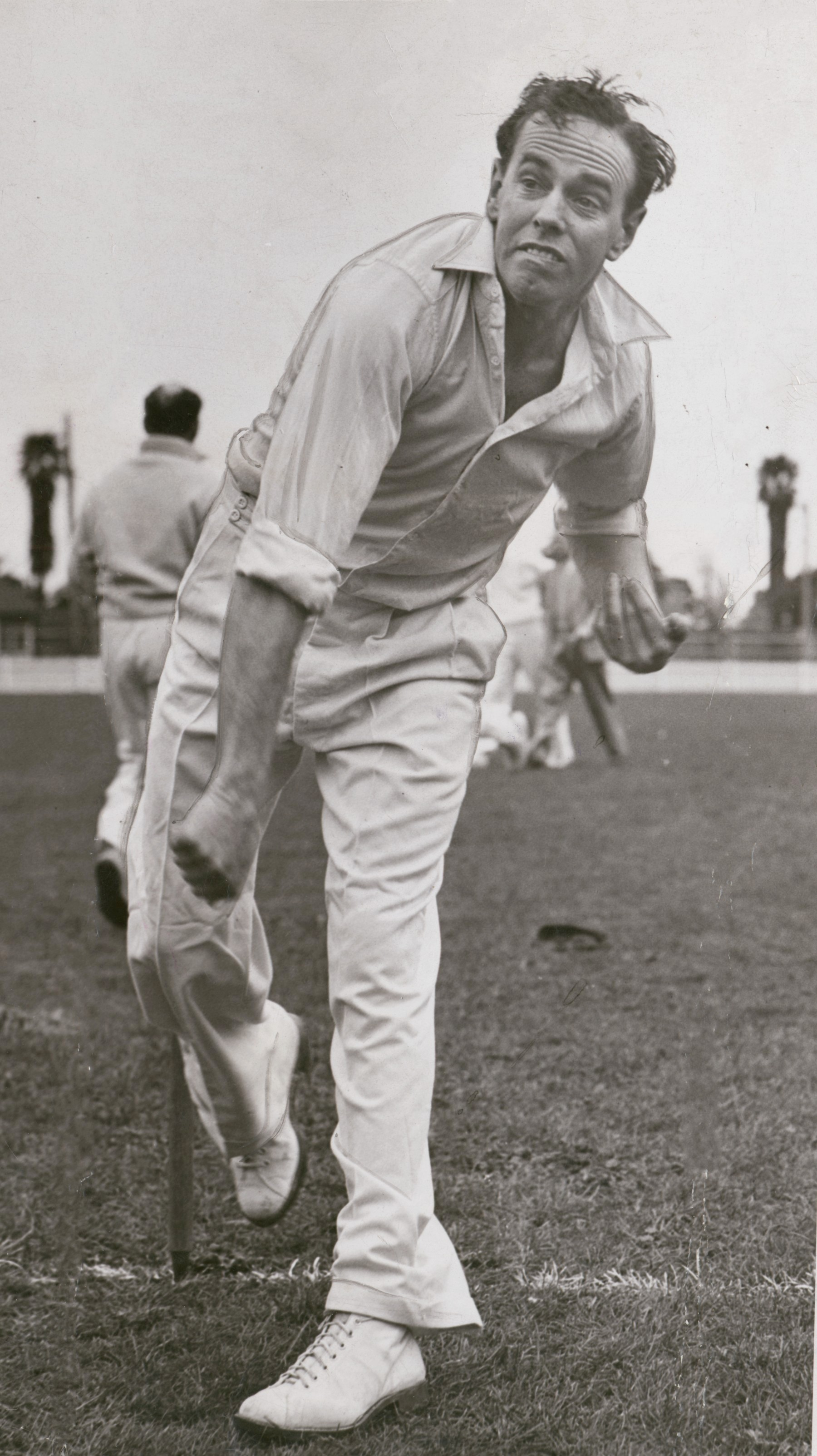 Australian cricket captain, Ian Johnson, bowling, batting and fielding